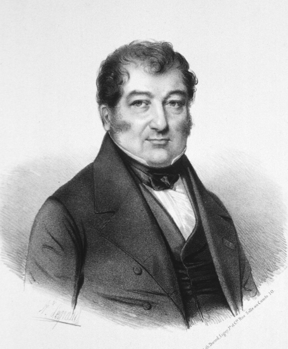 Jean Guillaume Auguste Lugol (18 August 1786 - 16 September 1851)